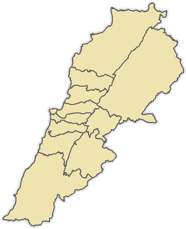 1992 Vote Law electoral districts. Based on File:Beirut districts I, II (2017 Vote Law) - Red.png.